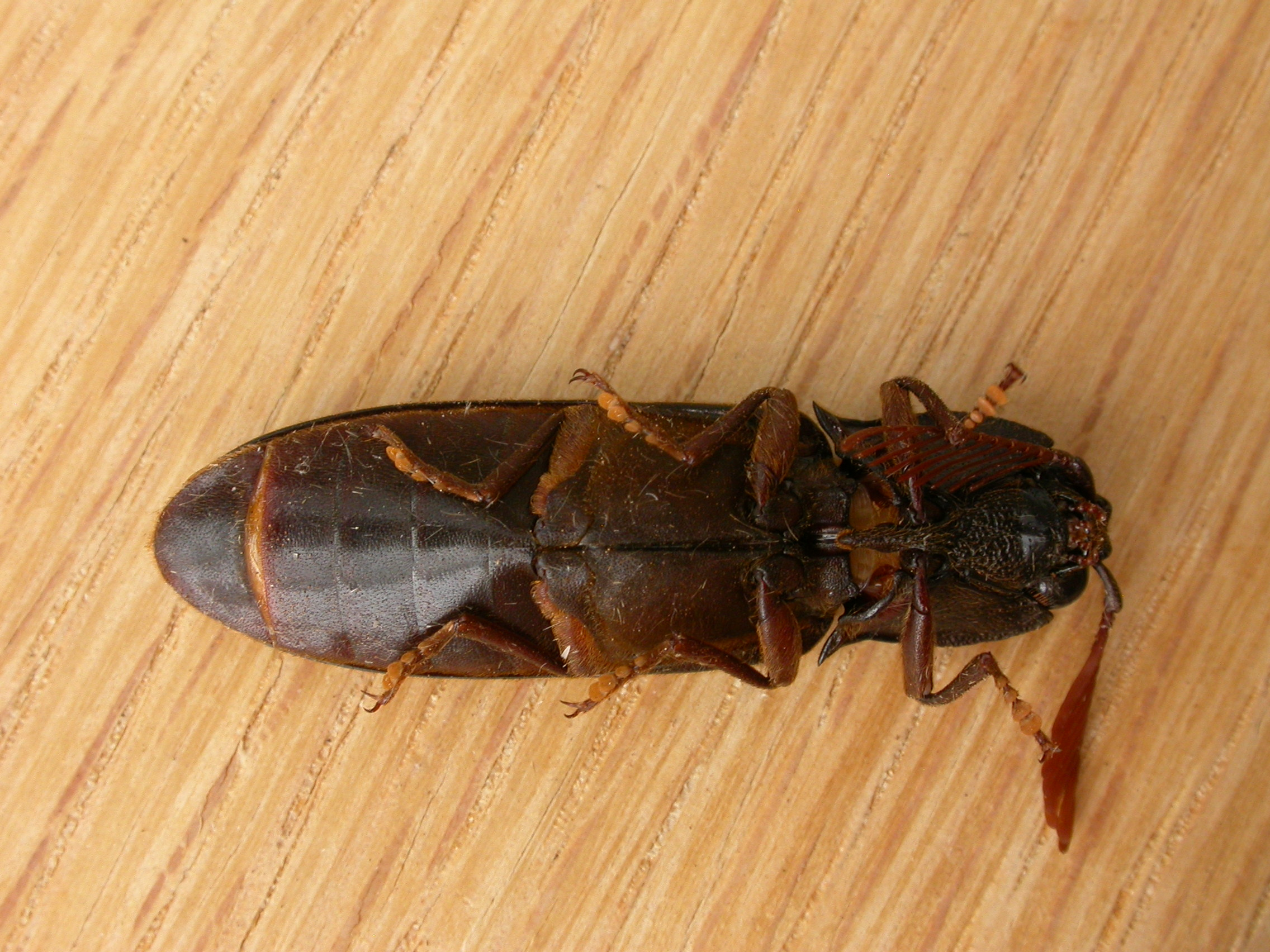 Pseudotetralobus australasiae (Gory, 1836), to MV light, Aranda, ACT, 24/25 January 2009